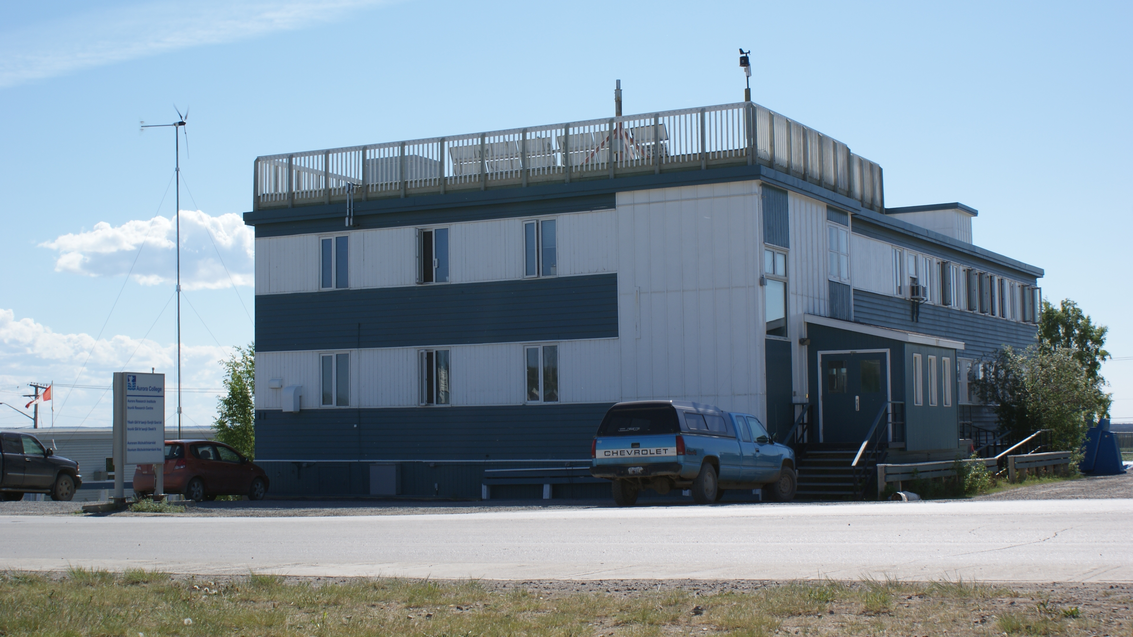 Aurora Research Institute located in Inuvik, Northwest Territories, Canada.